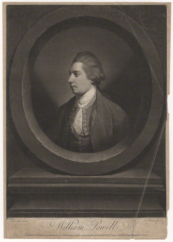 Portrait of William Powell (1735–1769), English actor.